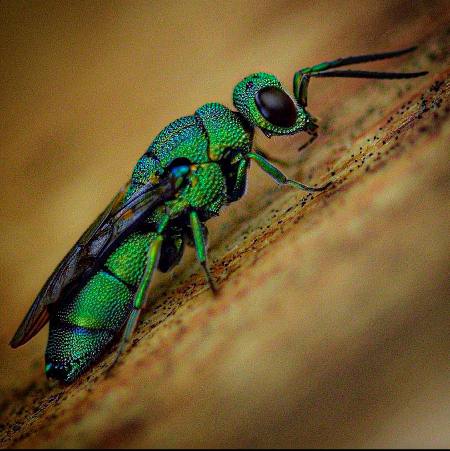 Wasp green